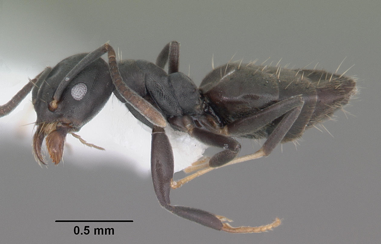 Profile view of ant Technomyrmex albipes specimen casent0104343.